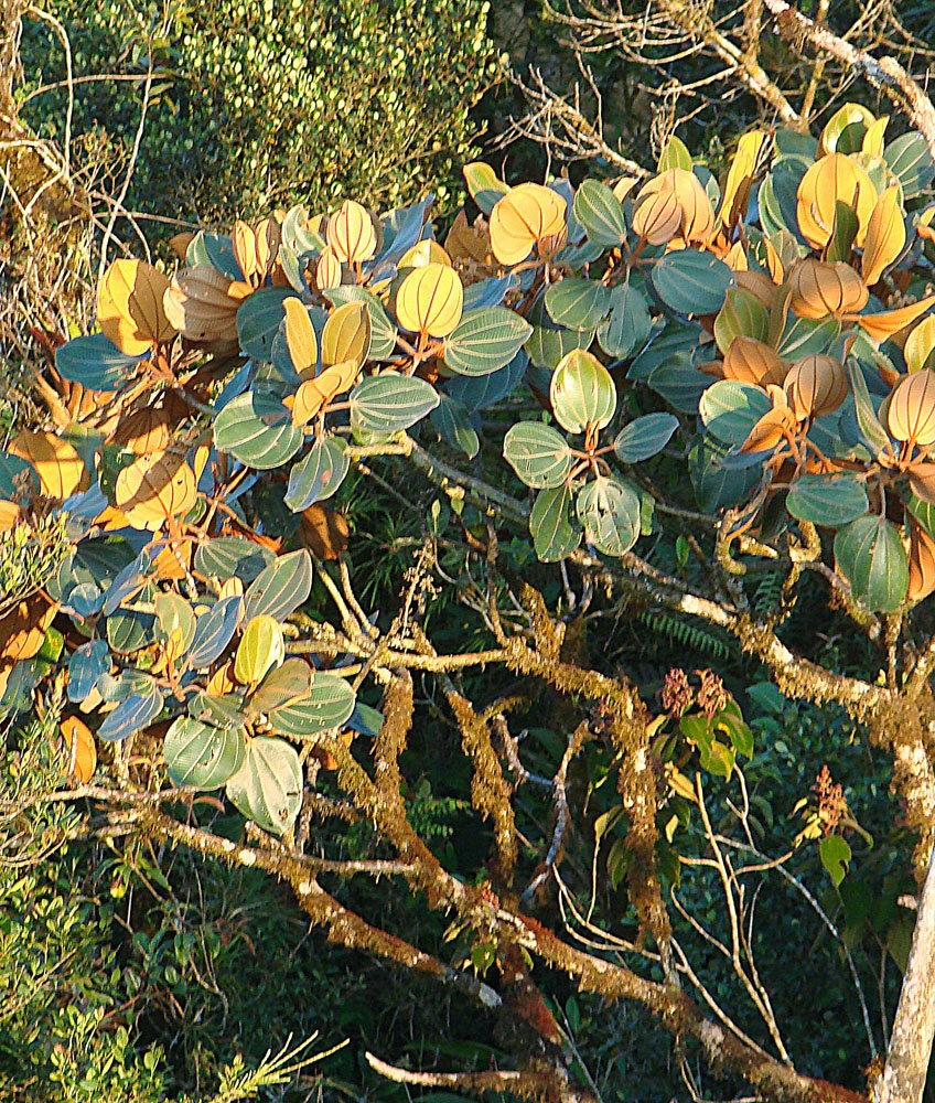 Graffenrieda emarginata: This tanglefoot dominates parts of the subalpine in the Condor Range between Peru and Ecuador.